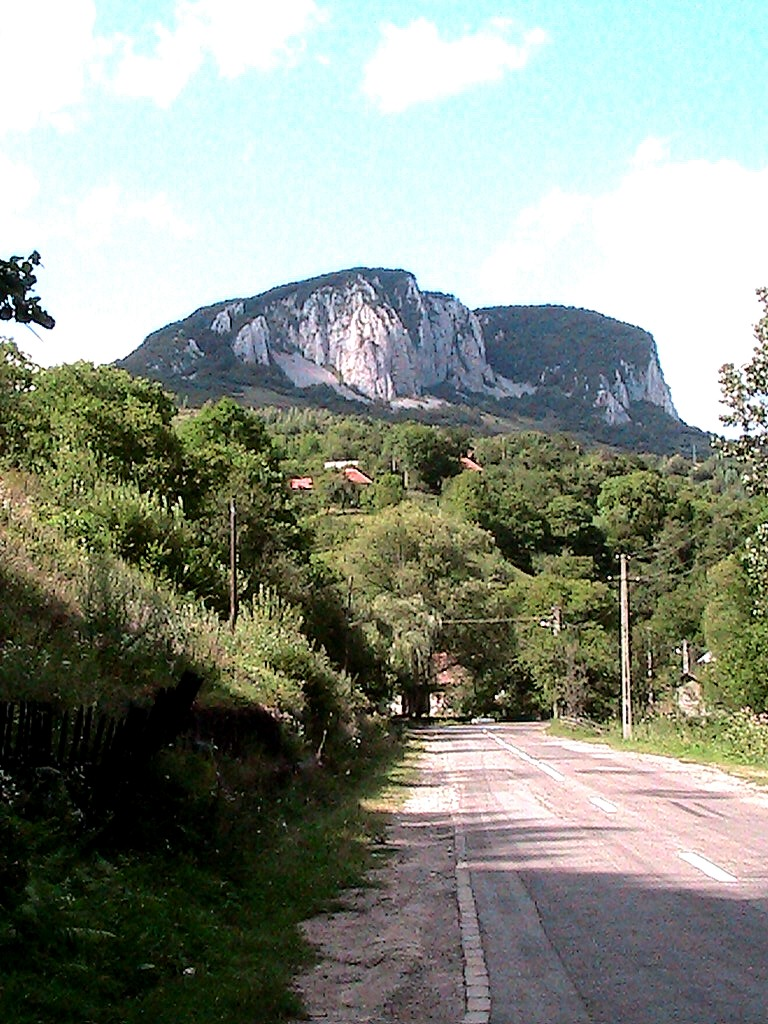 Buceș-Vulcan Pass